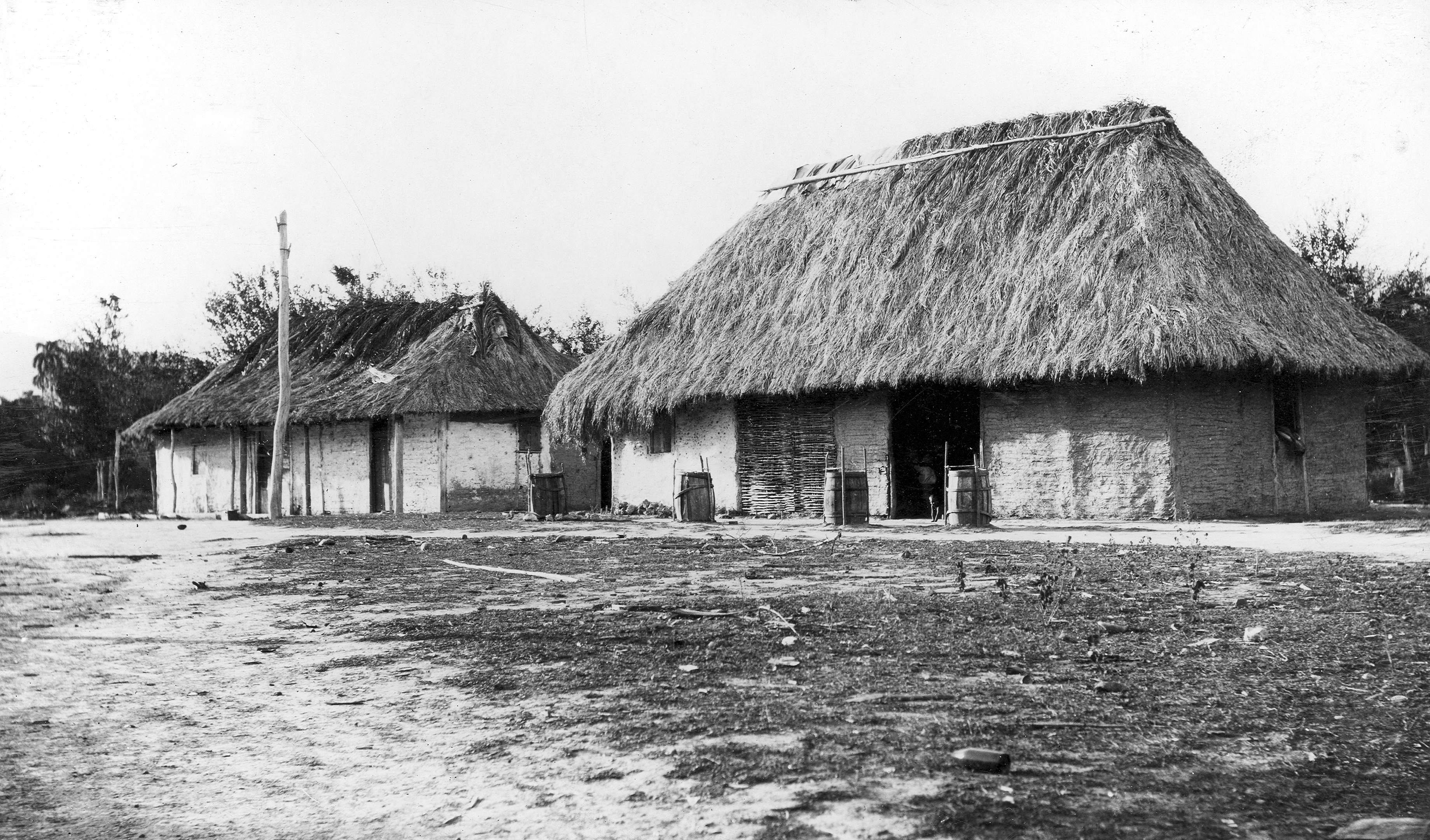 Rural thatched houses, Cuba, c. 1920. "Typical homes in San Antonio. Orienta Provence, Cuba." (sic, Oriente Province)